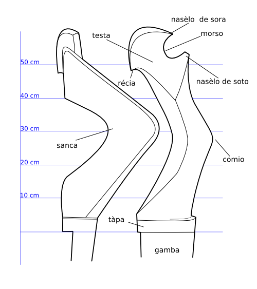 A forcola (plural forcole) is the rowlock or oarpost used in traditional Venetian boats, the most well-known type of boat being the gondola.